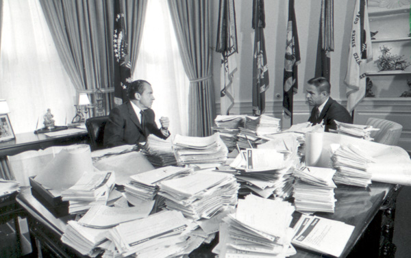 Photograph of Nixon and his Chief of Staff, H. R. Haldeman, surrounded by telegrams from people reacting to the "Silent Majority" speech